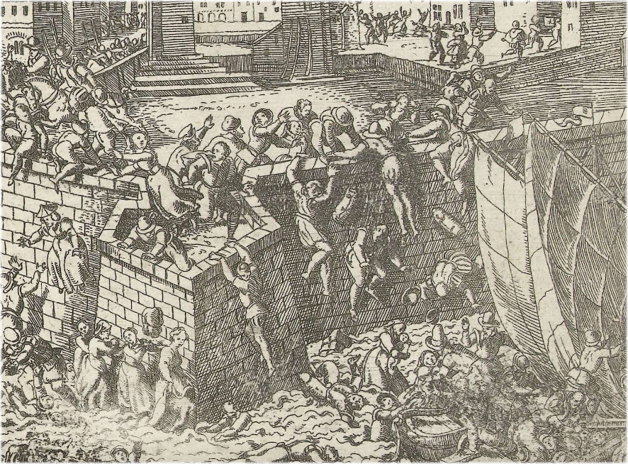 Spanish Fury at Antwerp